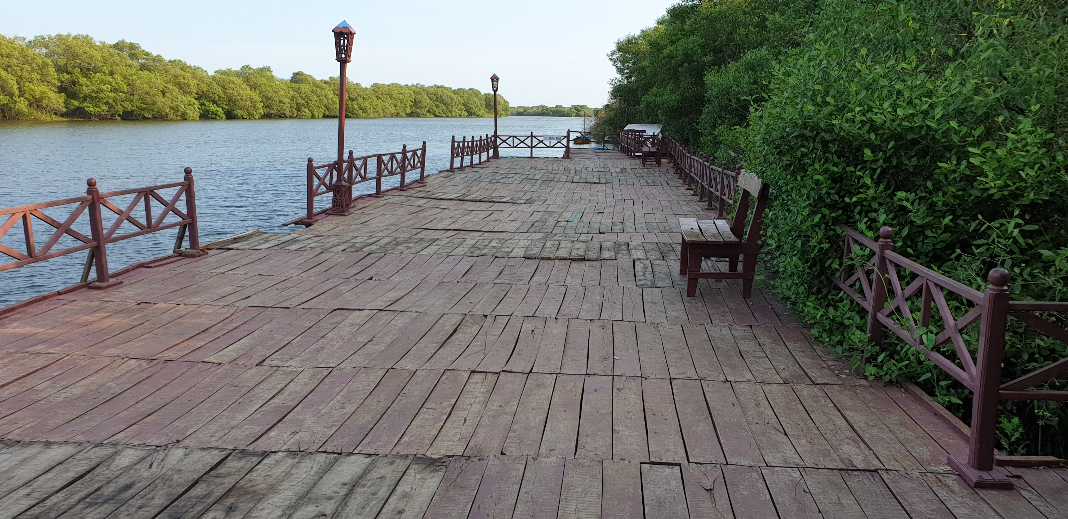 River view in coringa Abhayaranyam